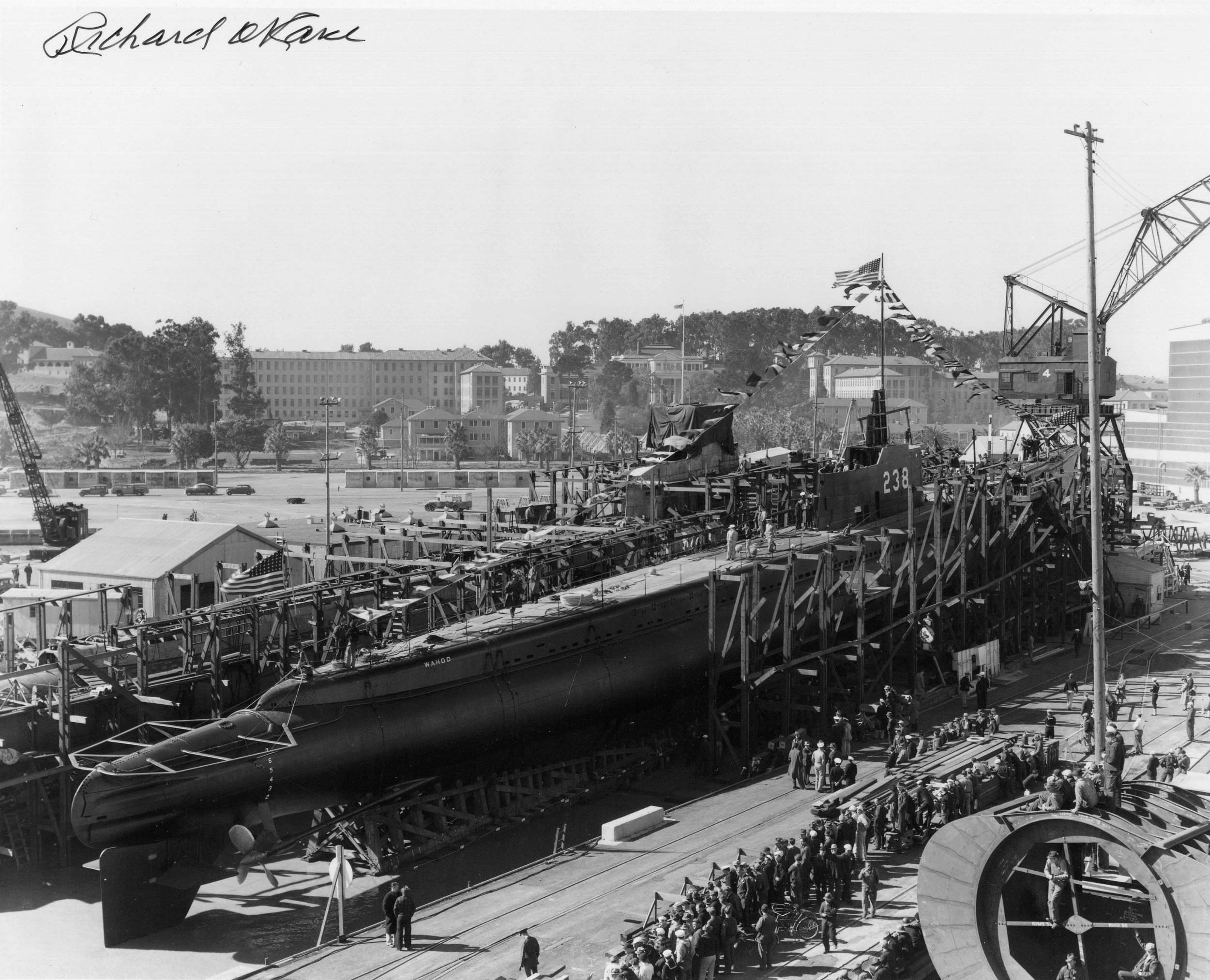 The USS Wahoo (SS-238) is ready for launching at Mare Island Navy Yard on 14 Feb 1942. The Whale (SS-239) is on the building ways on the left and a hull section for Tinosa (SS-283) is just visible on the lower left corner of the photo. Her keel would be laid on the same ways on 21 Feb 1942.